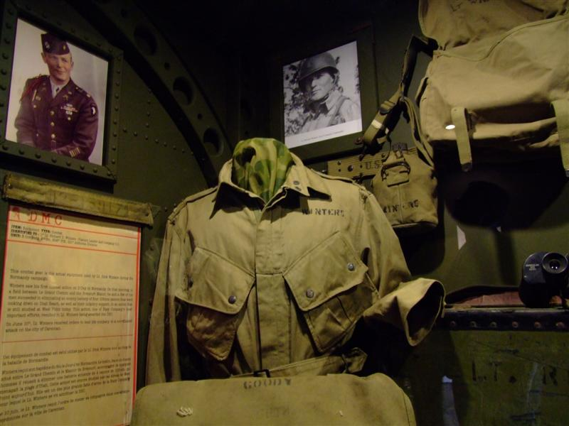 Cpt. Winters uniform at the Dead Man’s Corner Museum